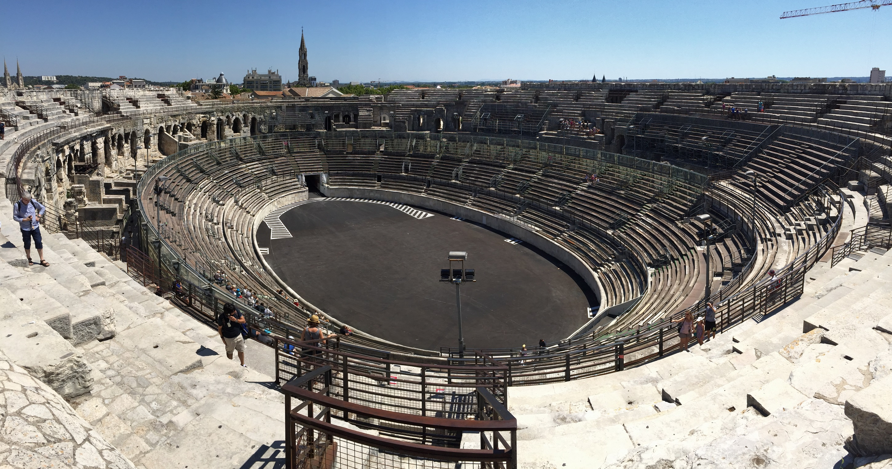 Arena of Nîmes, France